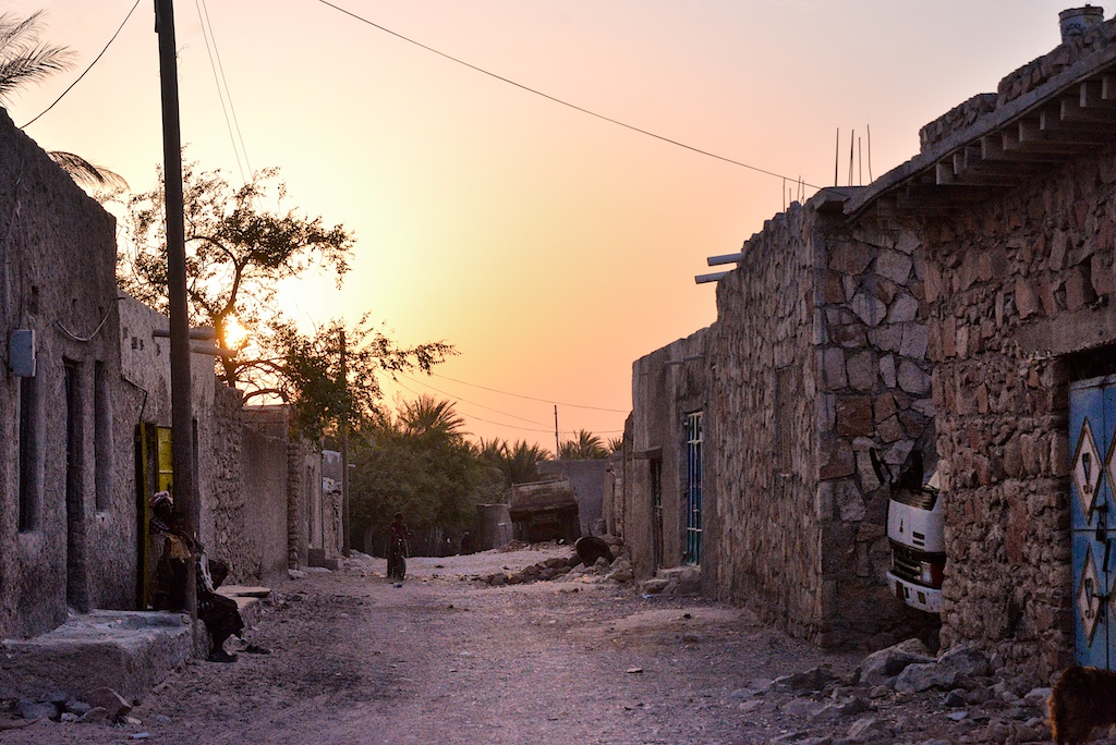 Hadibo Sunset, Socotra Island.